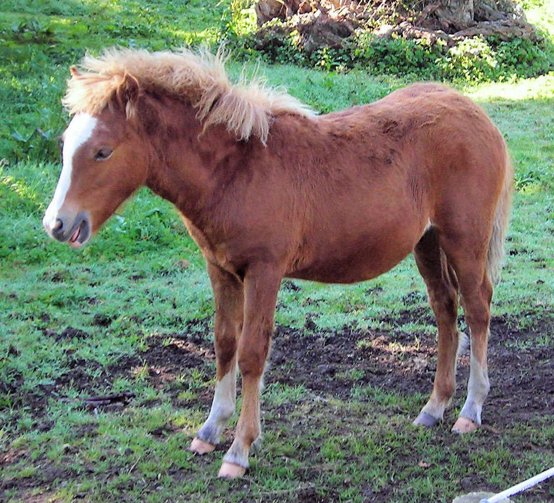 The Kerry Bog Pony is a draft pony breed originating in Ireland, and traditionally used for hauling peat fuel from bogs, as well as for general draught work on small holdings. It is smaller than, and distinct in appearance from, Ireland's more widely known Connemara pony. The breed almost vanished during the twentieth century, declining to as few as 40 known members. Genetic analysis of these survivors by Weatherbys confirmed unique genetic breed markers, and the breed is now recognized as the Irish "Heritage Pony".Kerry Ponies are kept at the Bog Village. The aim is to save them from extinction and, by breeding them, to increase their numbers in Kerry and further afield.